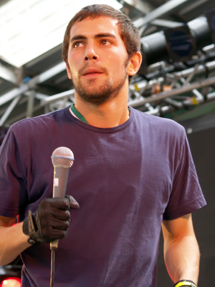 Eddy Current Suppression Ring Golden Plains Festival March 2007